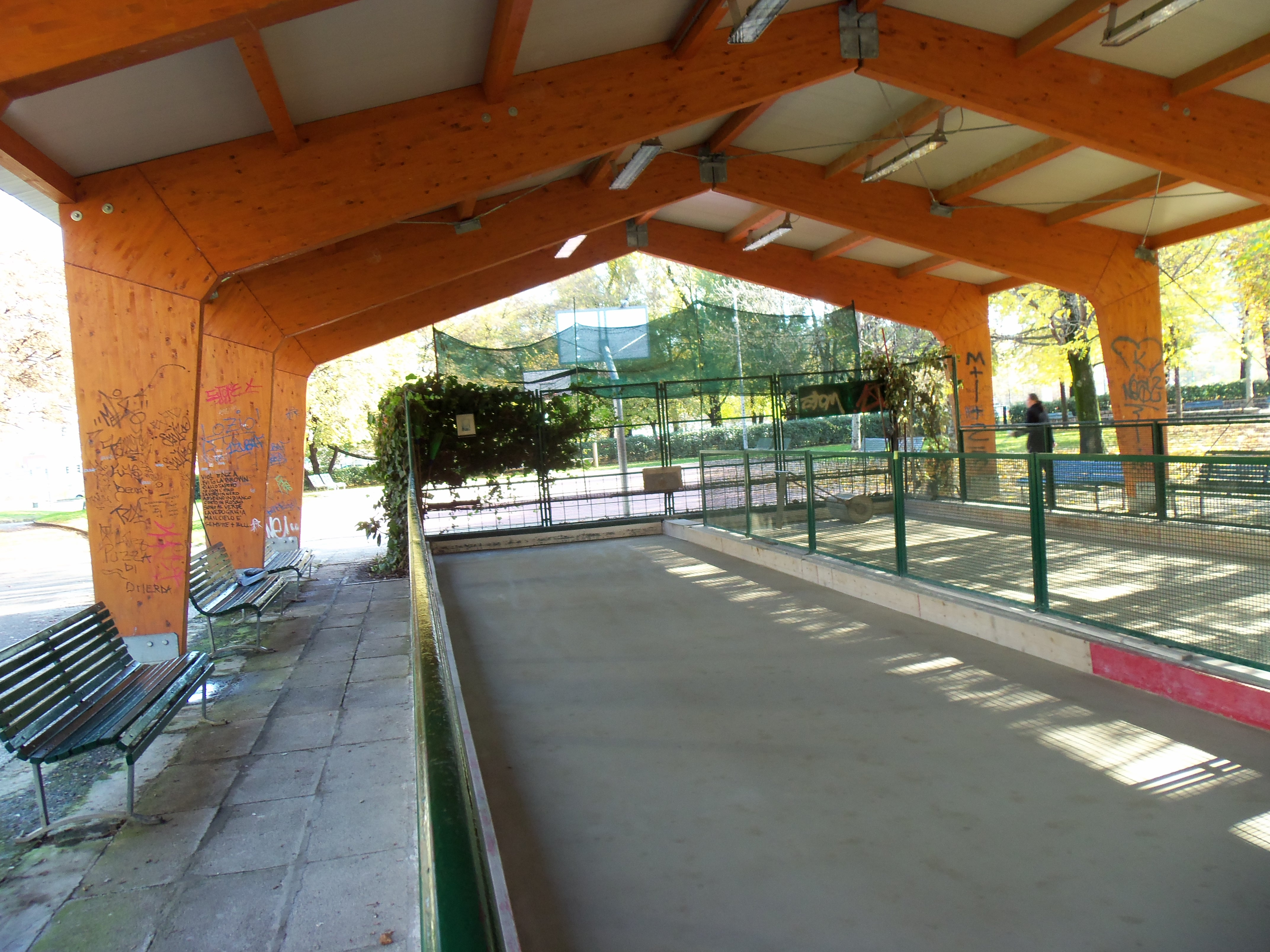 Milano, bowls court in Formentano park